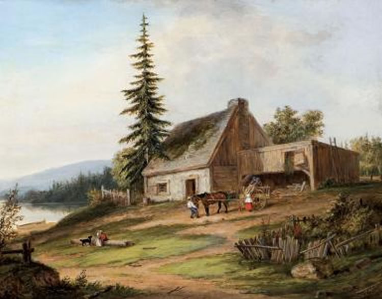 A Pioneer Homestead